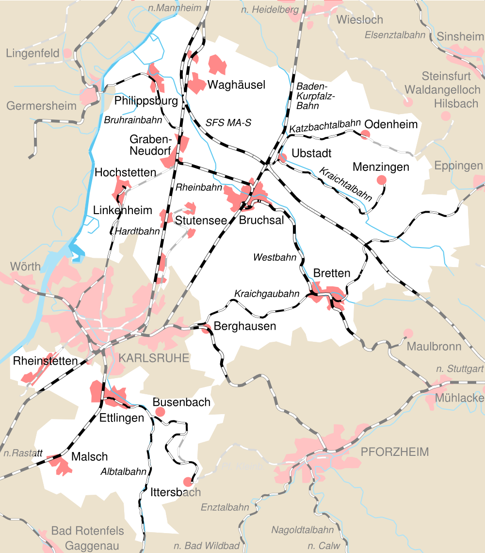 railway map of German district of Karlsruhe. please see User:Kjunix/BahnNWB for comments.